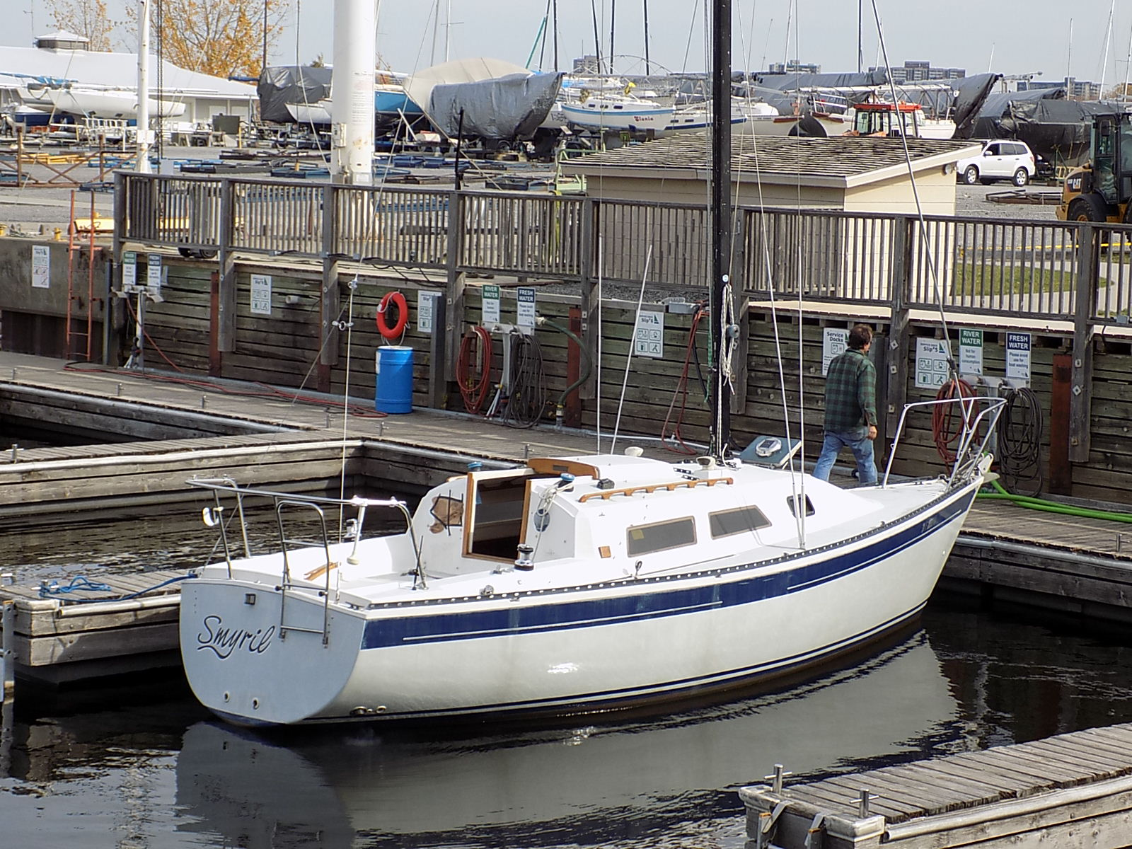 An Aloha 8.2 sailboat named Smyril.